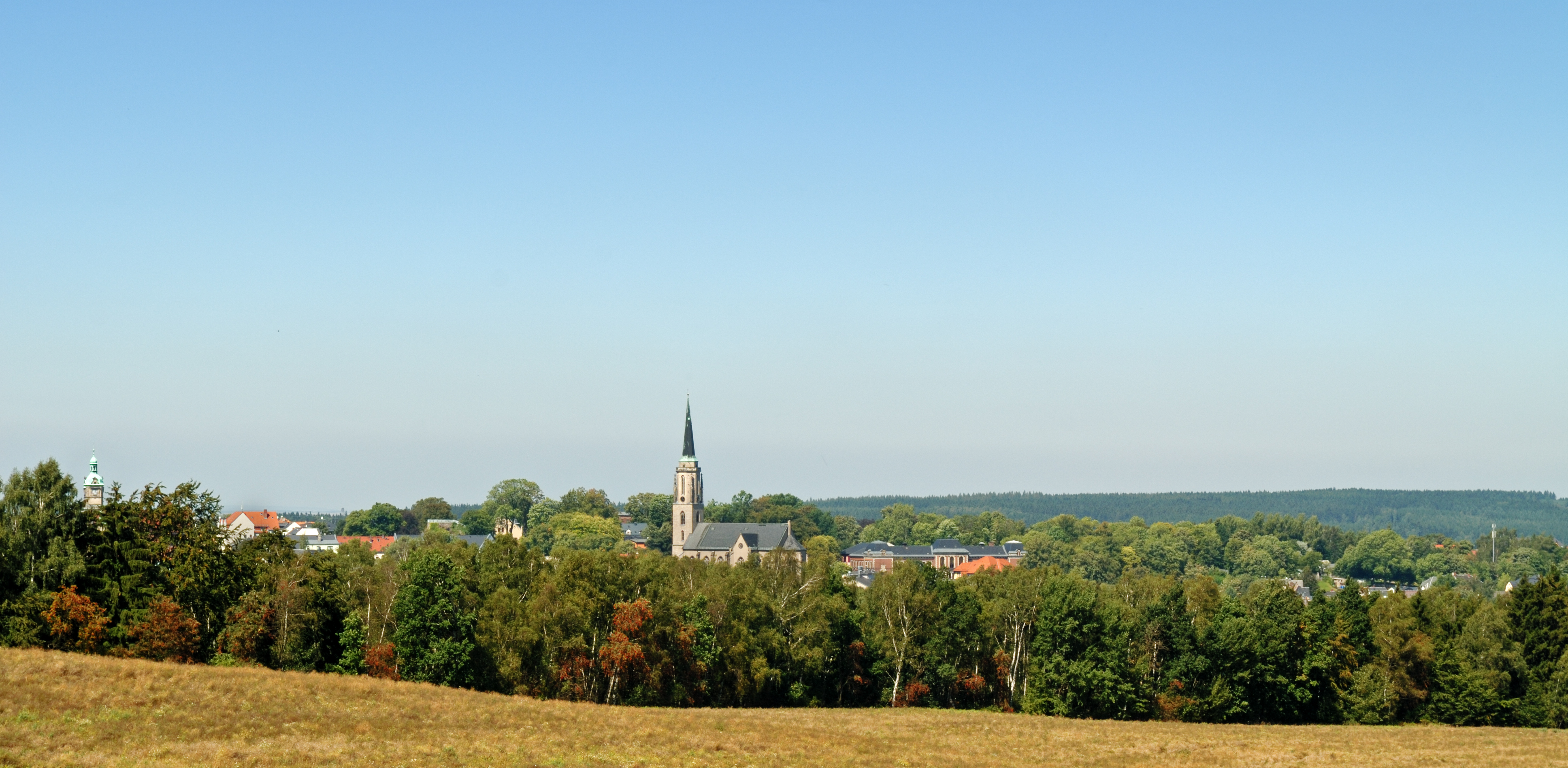 This image shows the township Falkenstein, Germany.